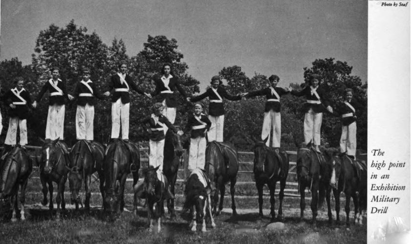 Drill team of riders, from Margaret Cabell Self